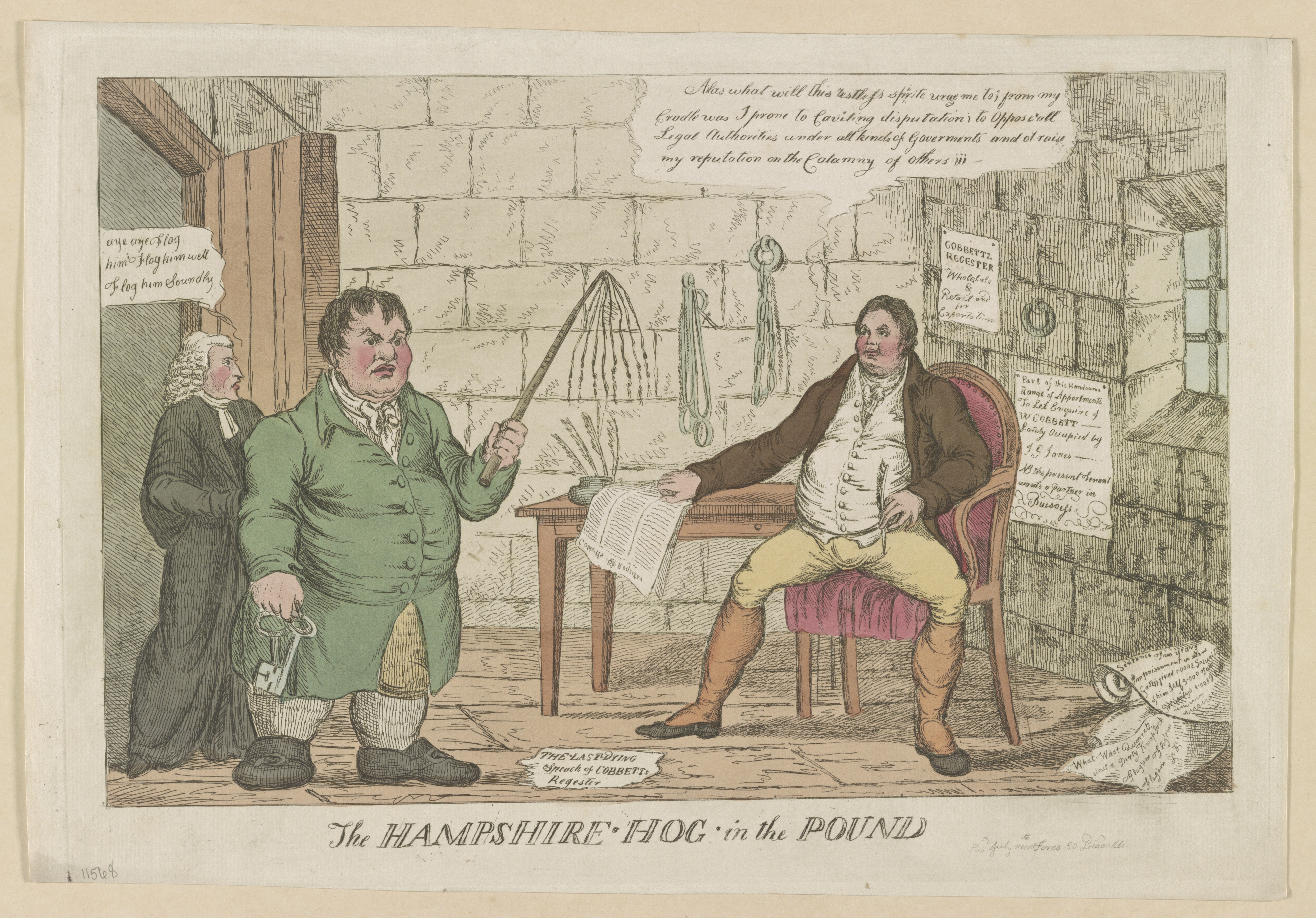 Title: The Hampshire hog in the pound. (William Cobbett in Newgate Prison. - for a description of the drawing.) Physical description: 1 print